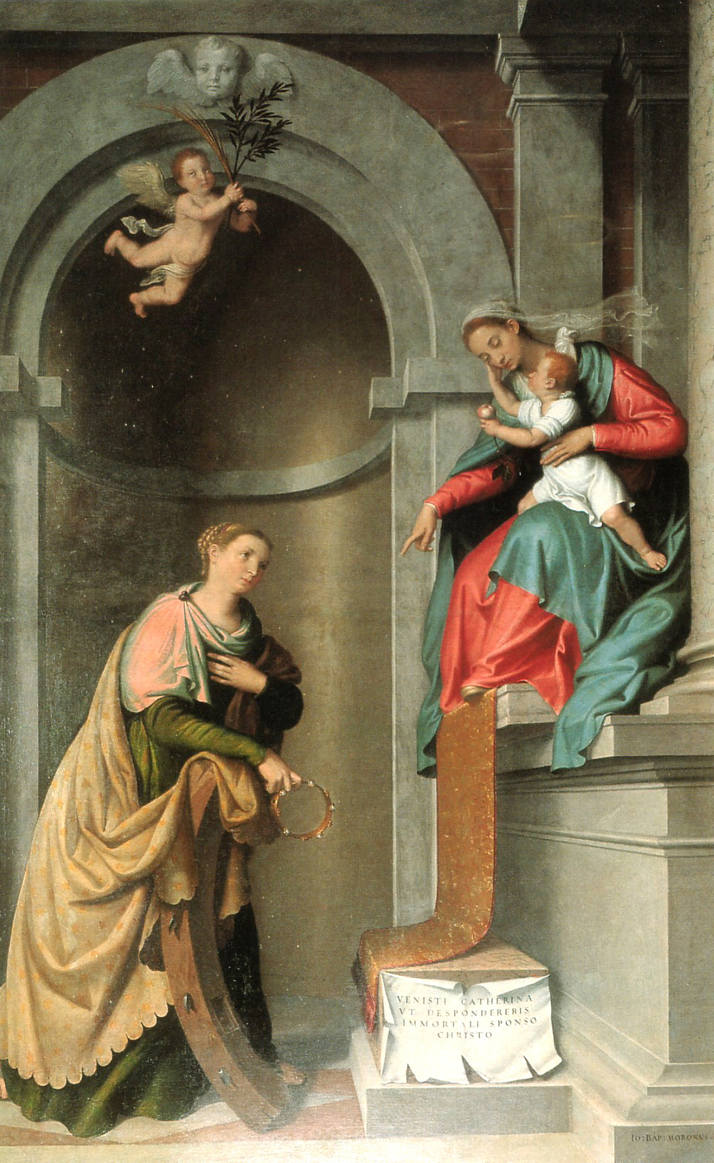 Madonna and S. Caterina